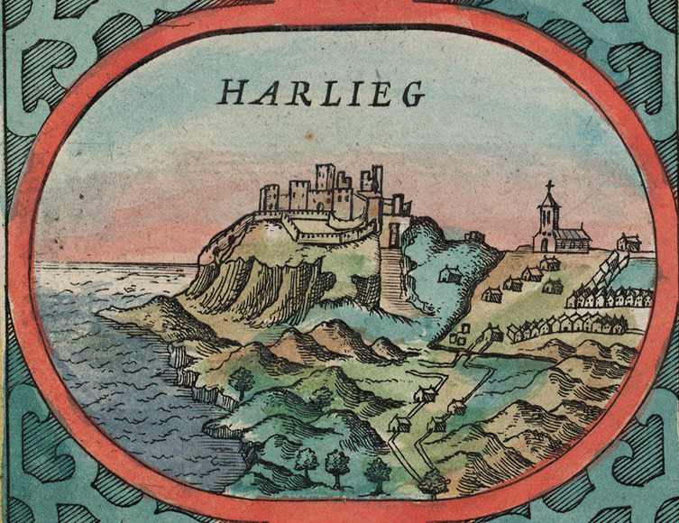 Insert from John Speeds County maps of Wales for first published in The Theatre of the Empire of Great Britain by George Humble